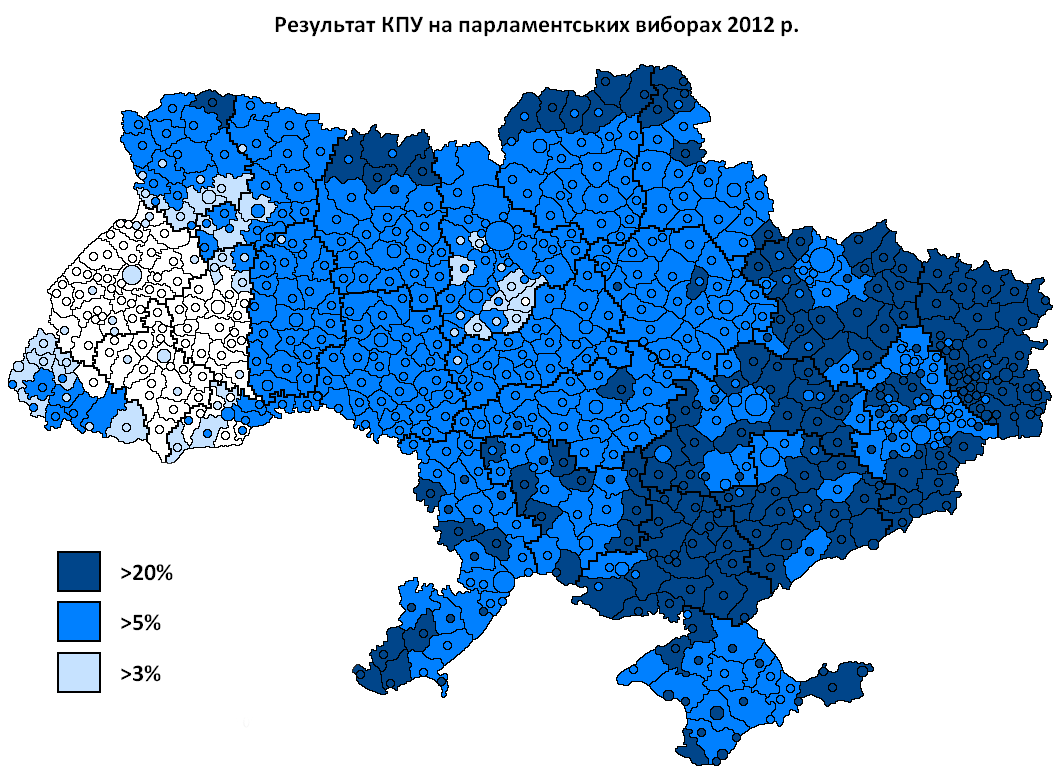 Raions and cities with over 5% votes for Communist party on Ukrainian parliamentary elections 2012